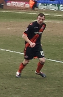 Neill Collins playing for Sheffield United on 29 March 2013.